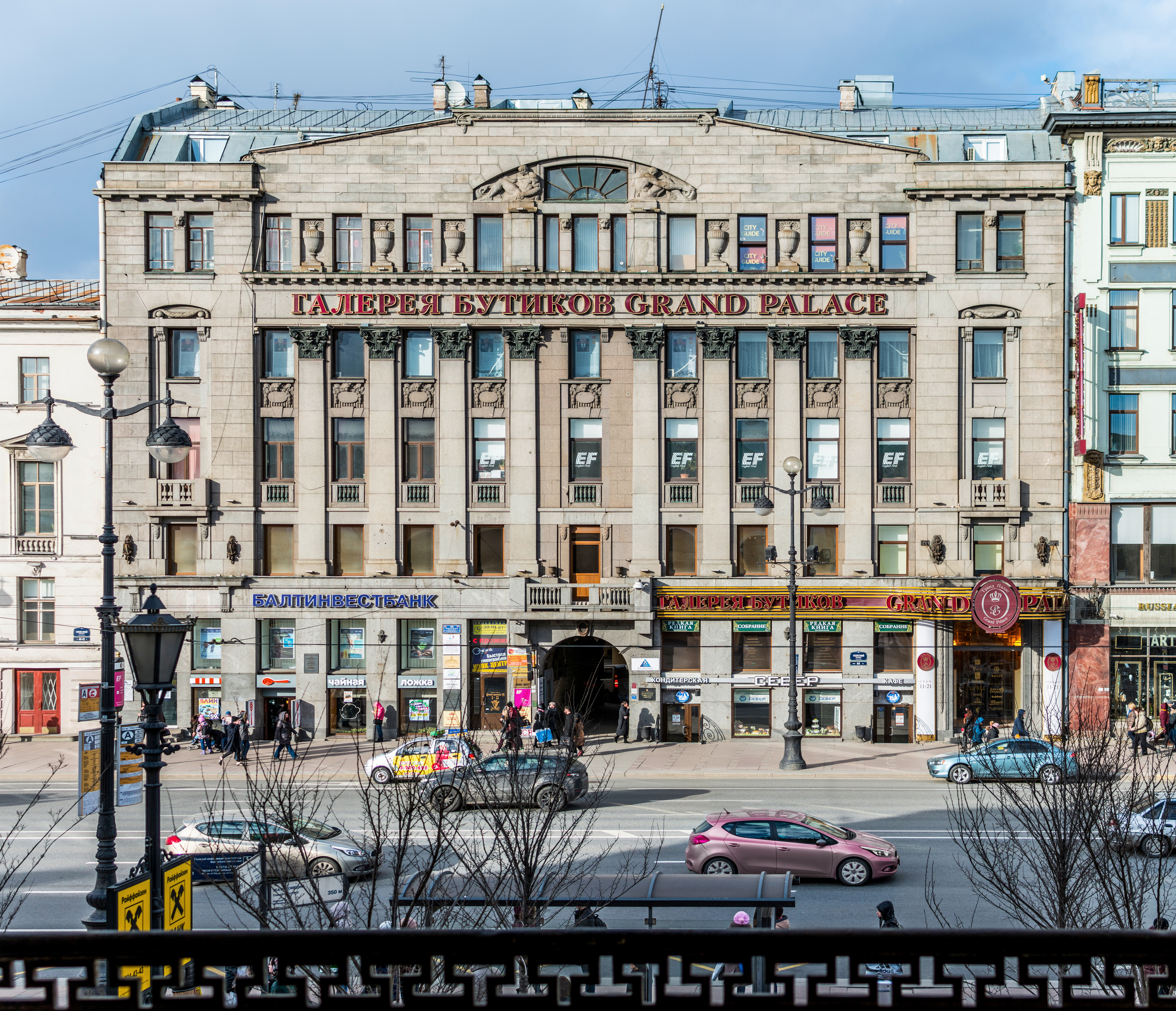 Siberian Trade Bank (44, Nevsky Avenue) in Saint Petersburg